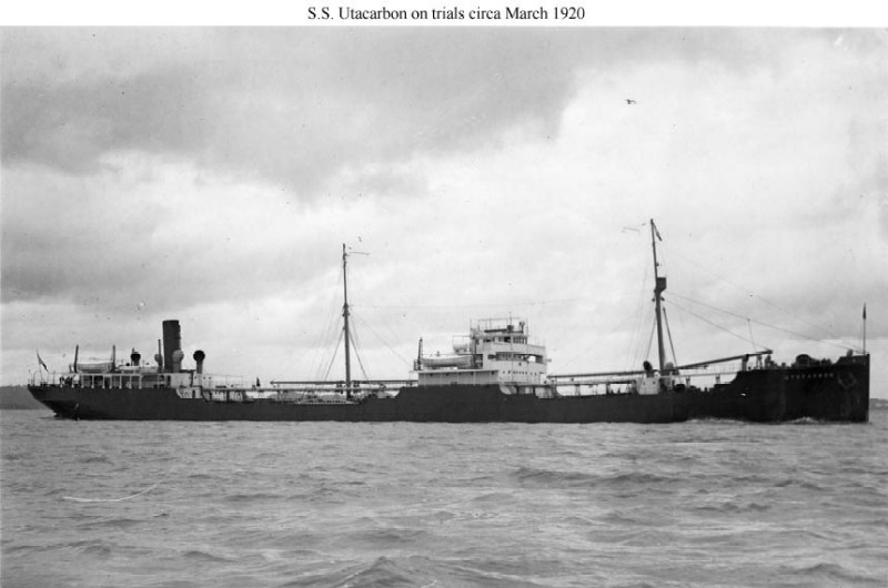 Tanker SS Utacarbon, which served as United States Navy tanker USS Yucca from 1945 to 1946, on trials in March 1920